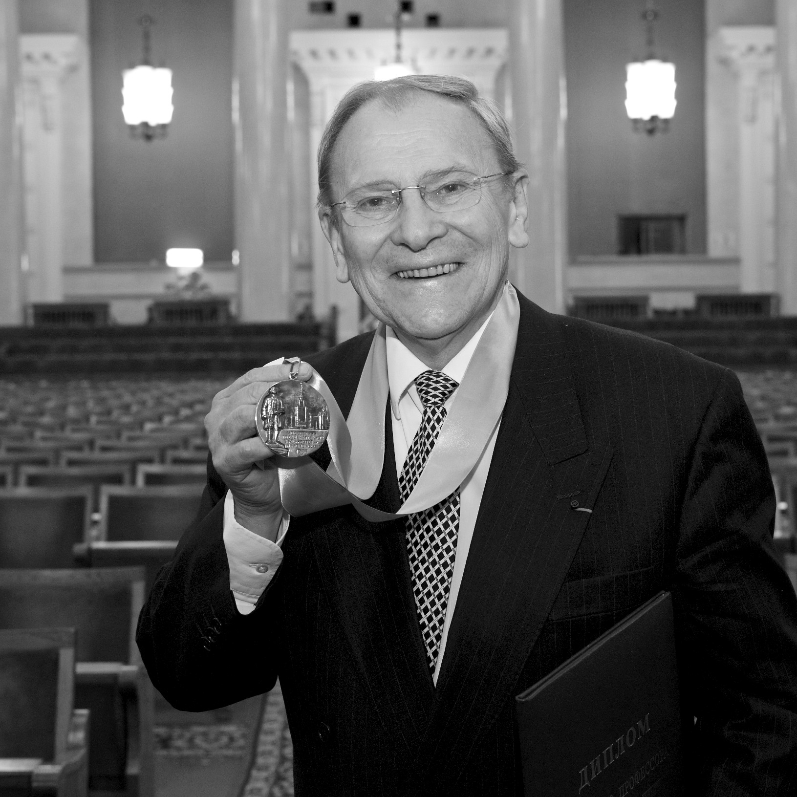 French chemist Gérard Férey after receiving the diploma of Honorable Professor of Moscow State University.